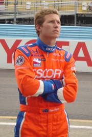 Ryan Briscoe shown at Watkins Glen International in 2006 by Klint Briney